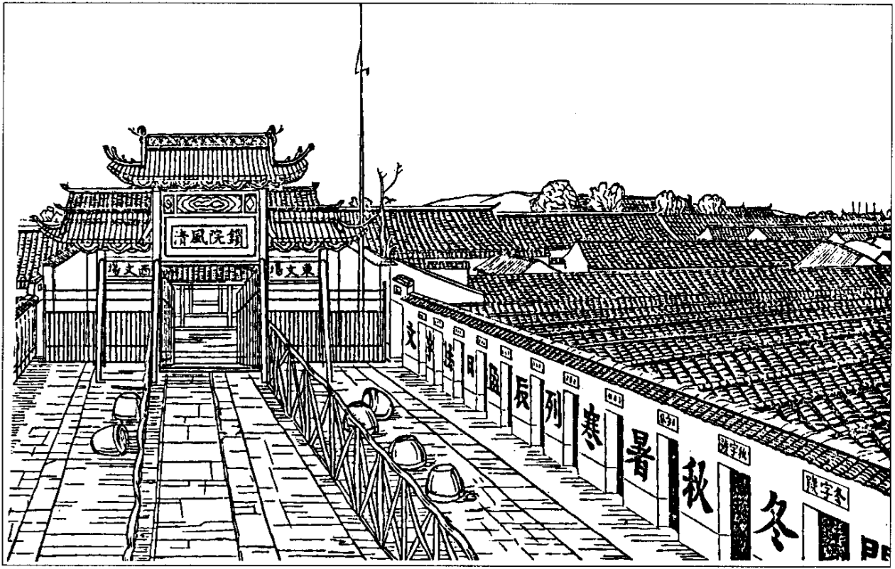 Entrance to Nanking Examination Hall